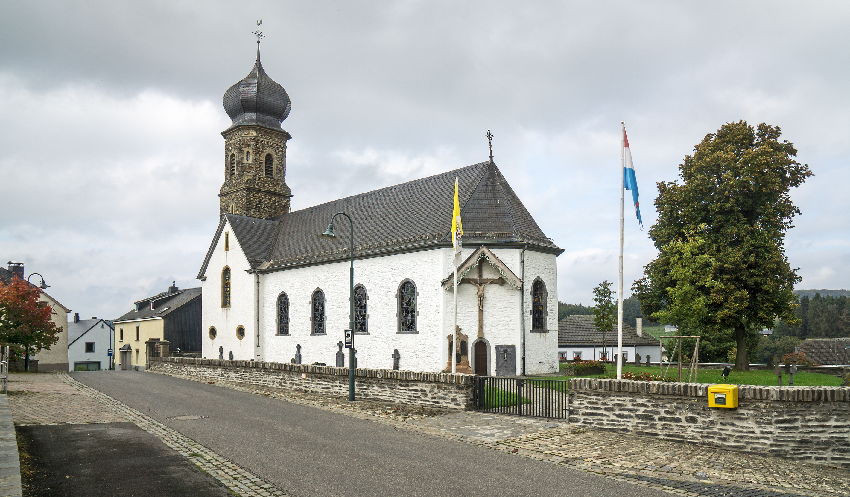 Church of Hachiville